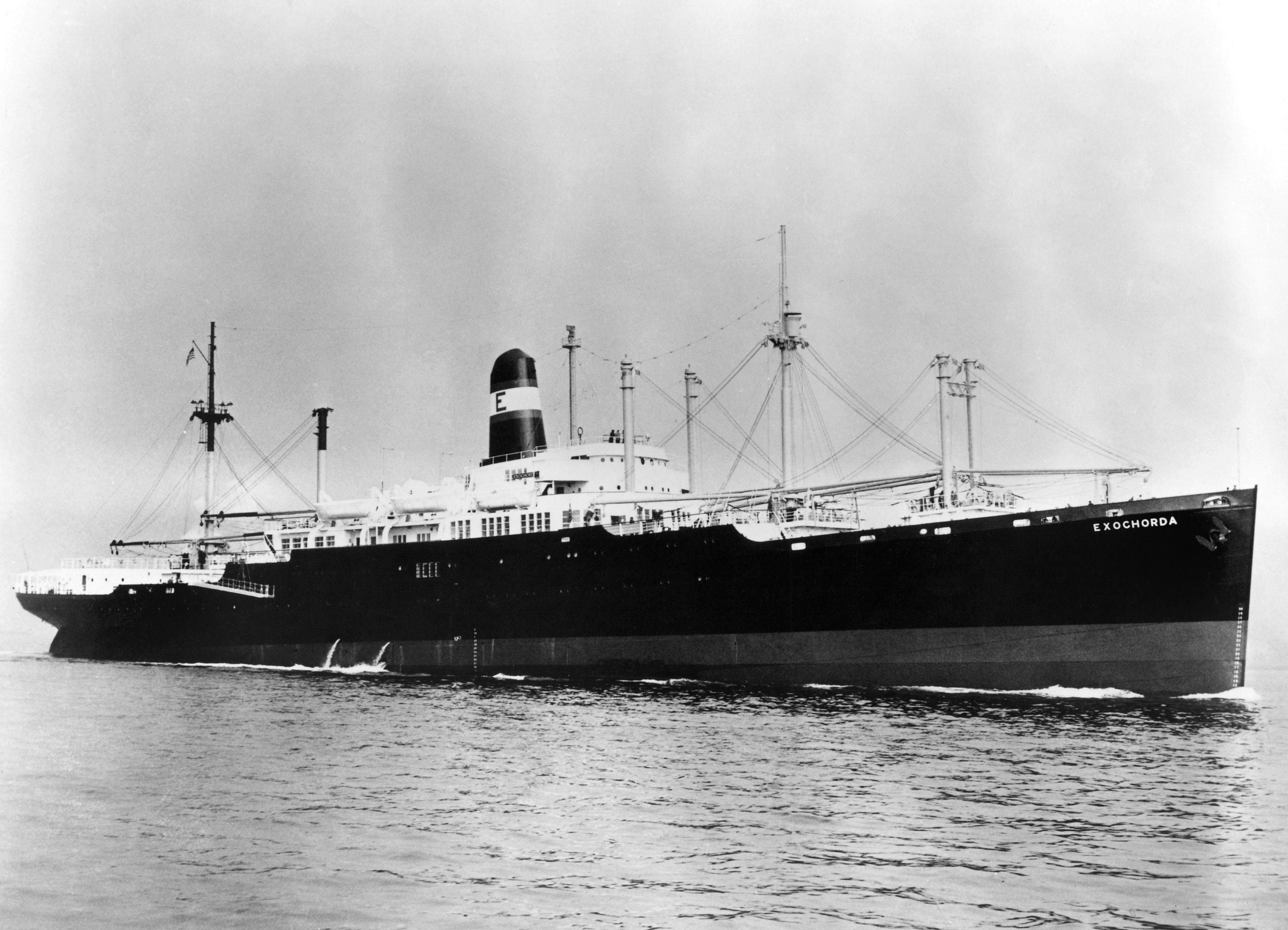 Photo of SS Exochorda, a passenger-cargo ship and member of the post-war quartet of ships known as the new "4 Aces" of the American Export Lines. The image was scanned from a photographic print. A small portion of the sky and water were cropped. Other photos of SS Exochorda (as SS Stevens) at SS Stevens Gallery